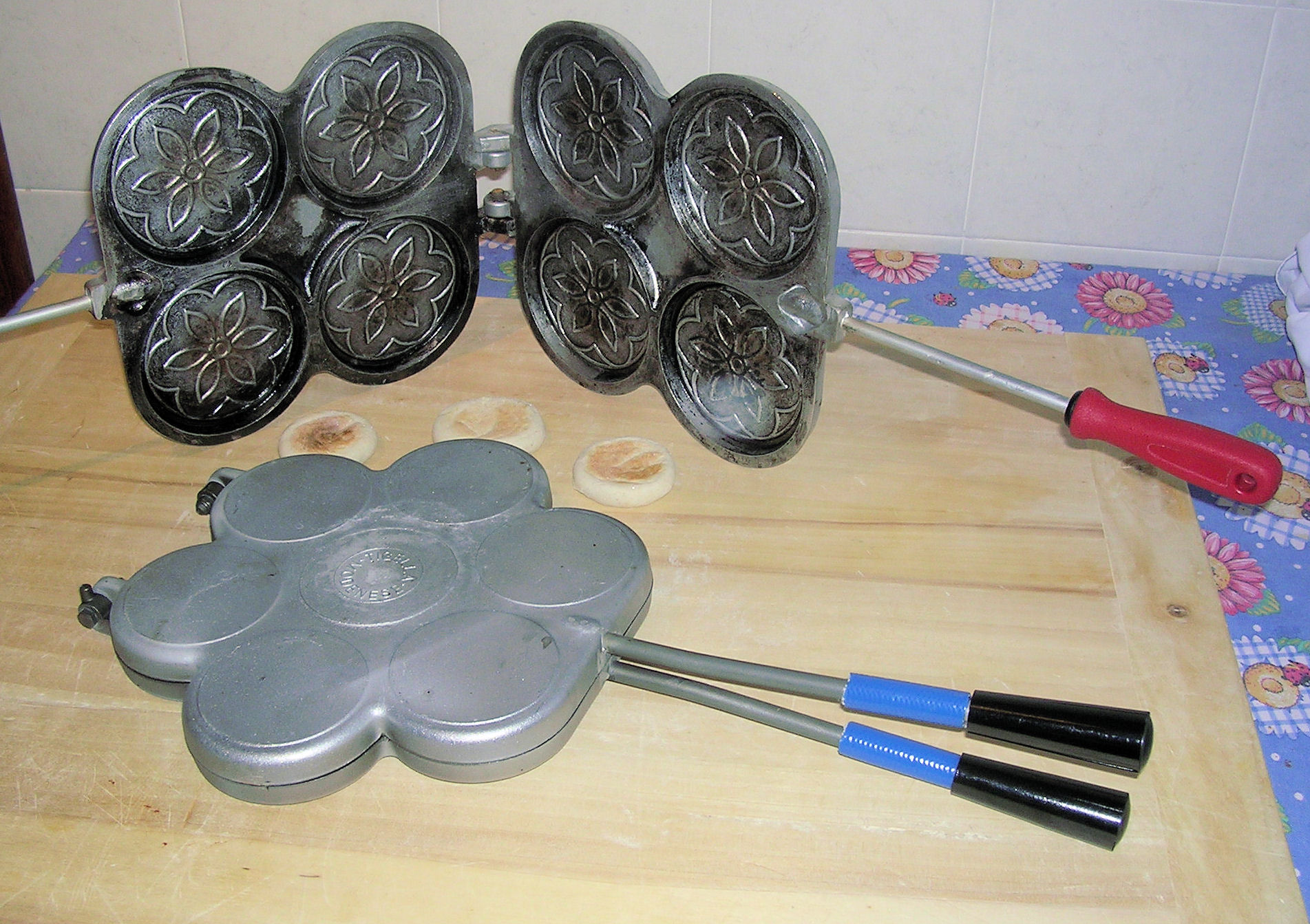 "Tigelliera", tool to home-make crescenti or tigelle, typical emilian bread